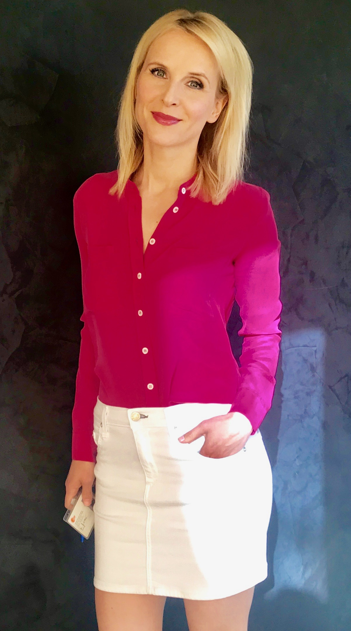 This is me (Katja Streso) on this picture. It has been taken with my camera. I have all the rights. The current picture on wikipedia has been published without my authorization! Kind regards, PenelopeS.22 aka Katja Streso